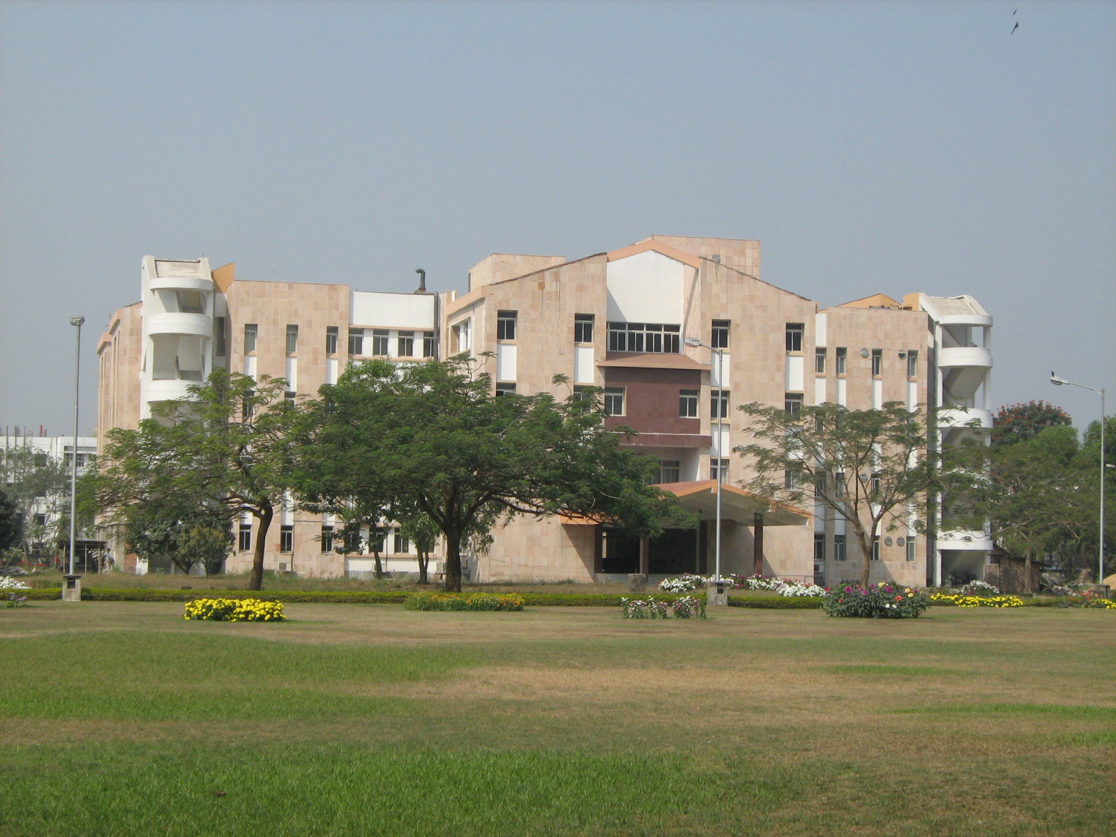 Front view of Main Building of S N Bose National Centre for Basic Sciences